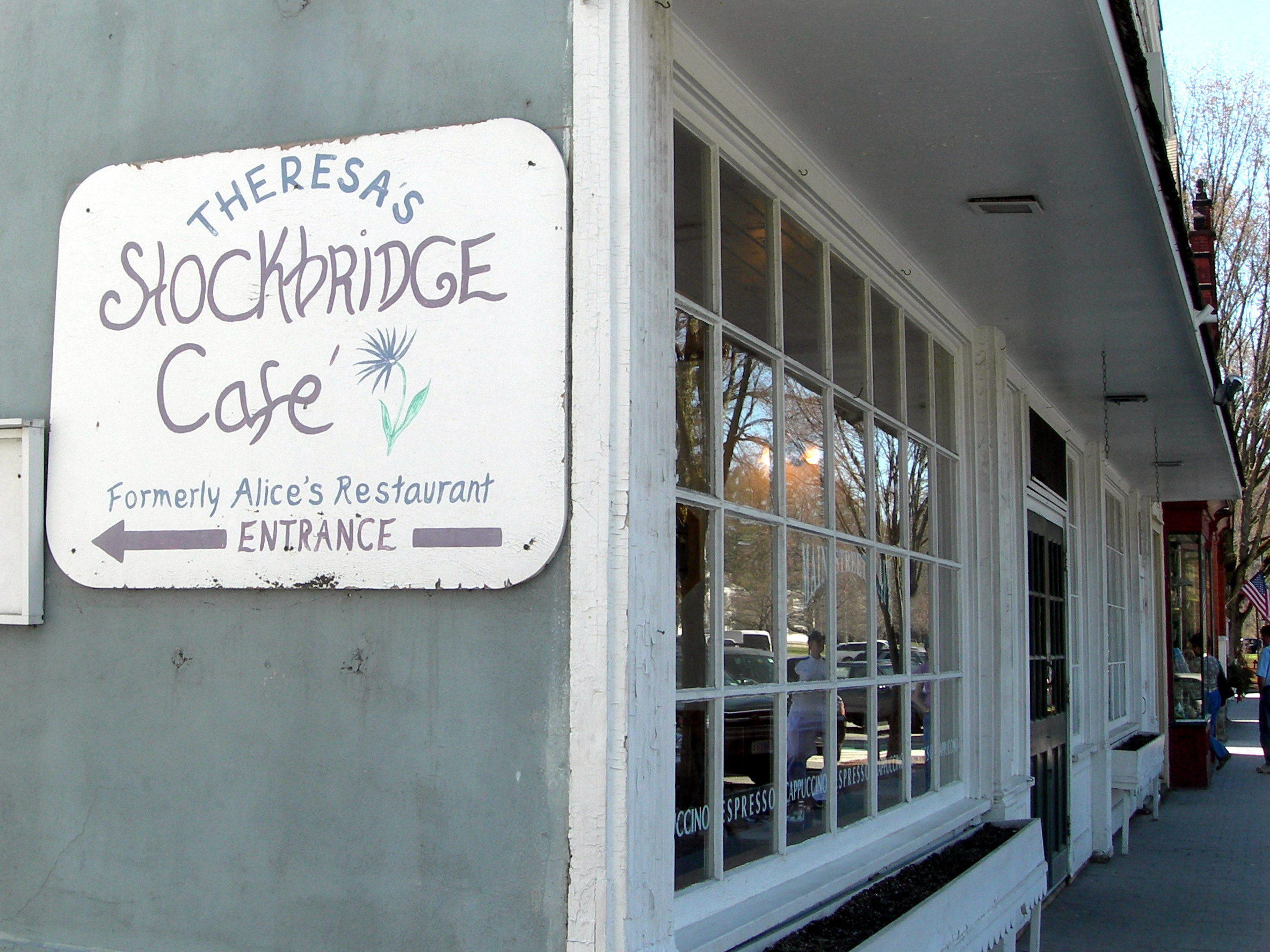 Street including sign for former Alice's Restaurant, Stockbridge, Massachusetts, USA